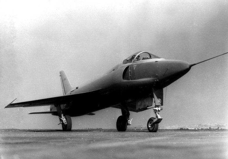 The Breguet 1100 fighter.The 1100 was based on the Breguet 1001 Taon, but preceded it as the Taon was delayed in order to incorporate in part the then newly discovered area rule formula. The Br 1100 first flew on 31 March 1957. After a Ministere de l'Air specification it was powered by two lightweight Turbomeca Gabizo turbojets. Three prototypes were ordered, the third of which was to have been a naval version. Only the first flew before the programme was cancelled for budgetary reasons.